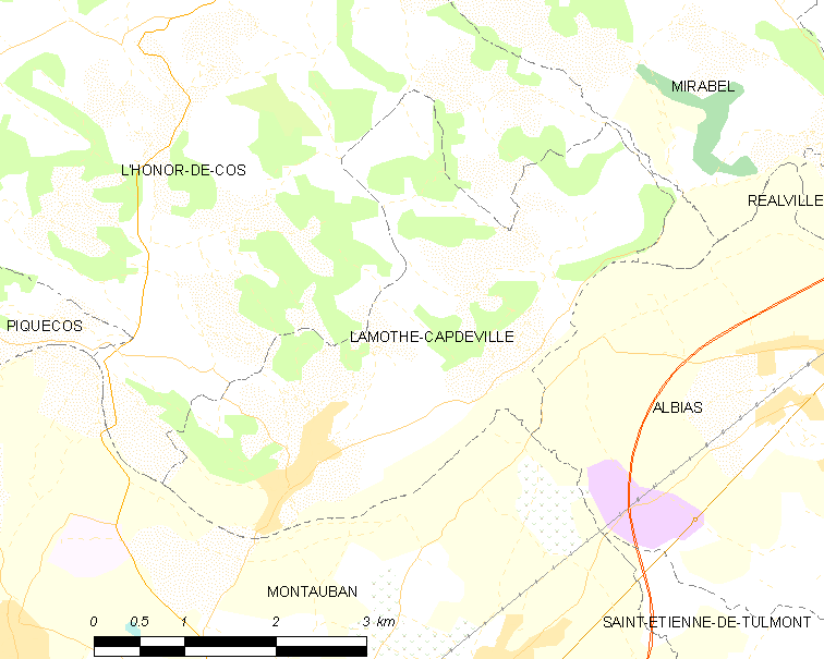 Map of French municipality Lamothe-Capdeville